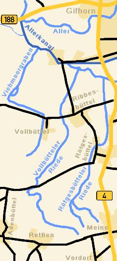 Map of the streams "Vollbütteler Riede" and "Rötgesbütteler Riede" in Lower Saxony, Germany